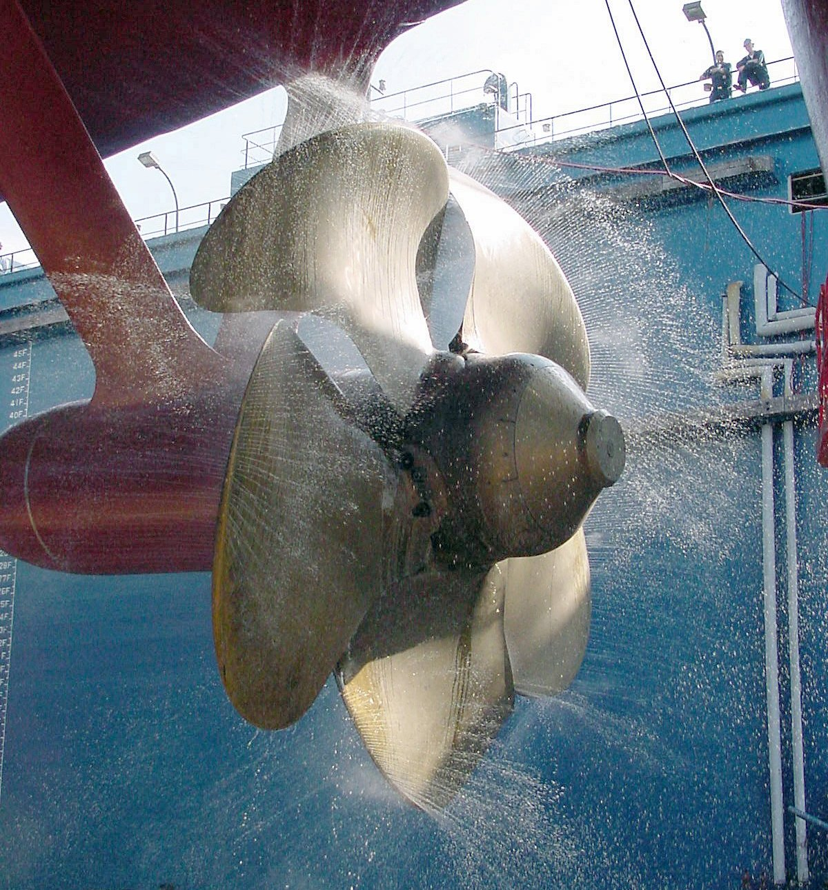 Cropped of Image:USS Churchill propeller.jpg Released to Public ID: DNSD0409218 Service Depicted: Navy 020805N5005R001 Close up view of the shaft driver propeller under the port side stern of the US Navy (USN) ARLEIGH BURKE CLASS (FLIGHT IIA) GUIDED MISSILE DESTROYER (AEGIS), USS WINSTON S. CHURCHILL (DDG 81) as water and air are forced through the propeller to test the ship's system that reduces cavitations made by the screws while underway. The ship is near the end of a $25 million Post Shakedown Availability (PSA) at Bath Iron Works in Bath, Maine (ME). Location: BATH IRON WORKS, MAINE (ME) UNITED STATES OF AMERICA (USA)